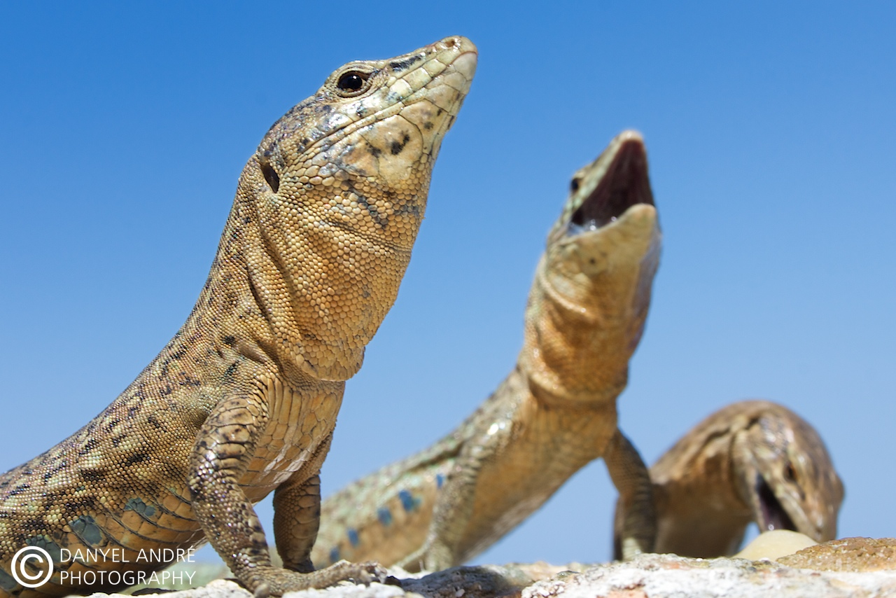 Endemic lizard of the Island Sa Dragonera